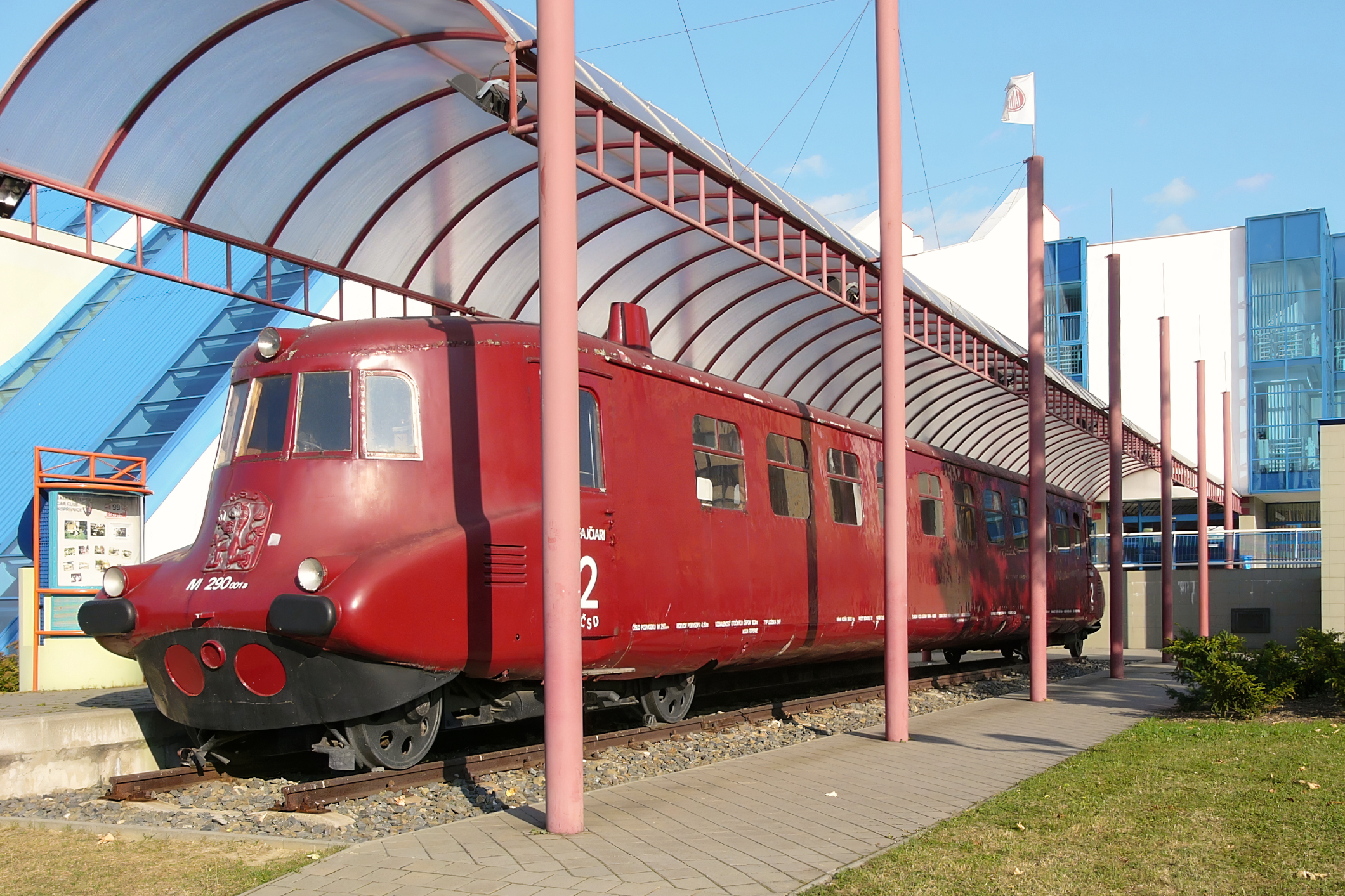 Historical motor coach M 290.002 (incorrectly marked as M 290.001) in front of Tatra Museum in Kopřivnice, Czech Republic.